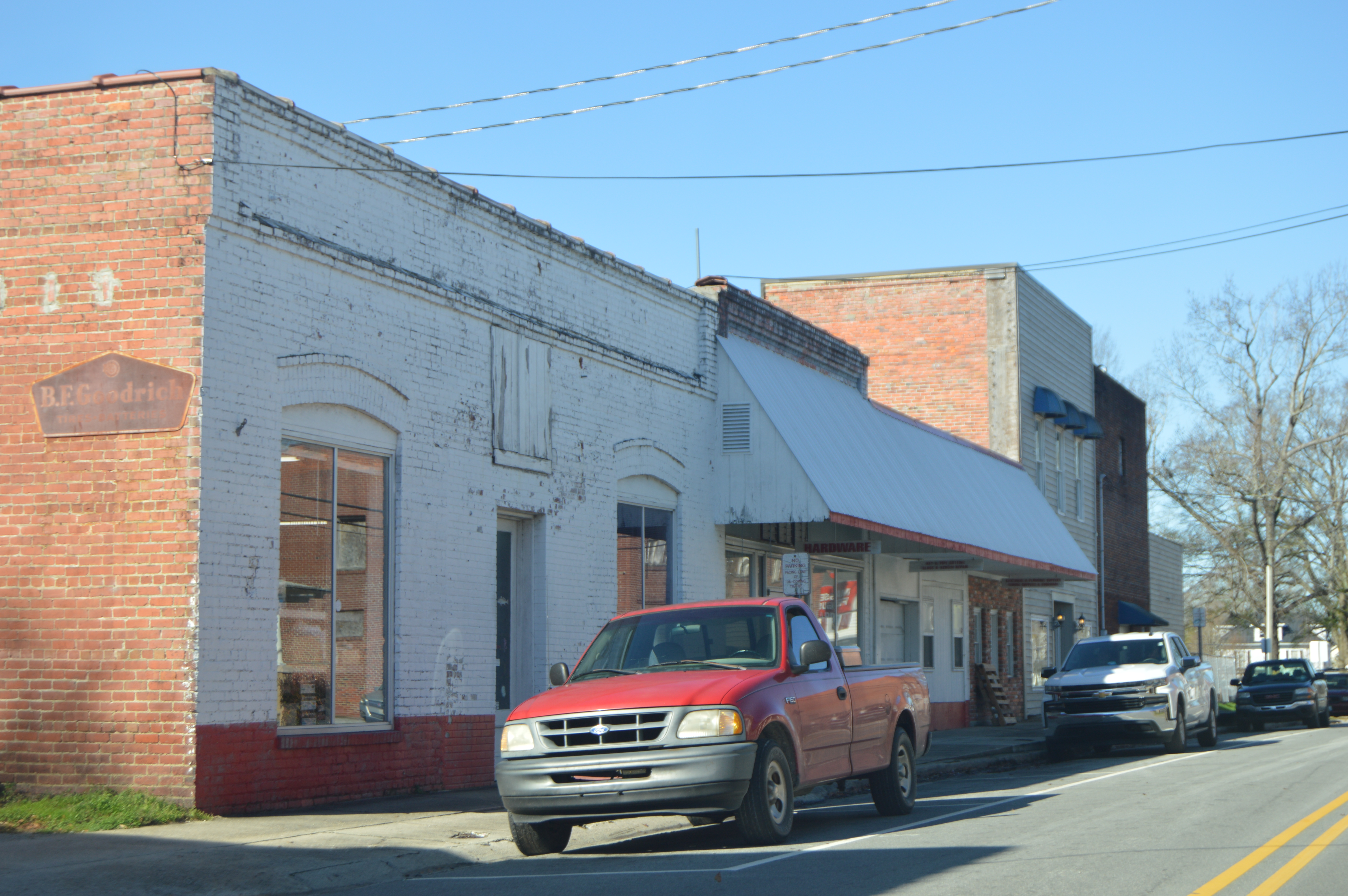 Buildings on the southern side of Hargett Street, west of Wilmington Street, in Richlands, North Carolina, United States. This block is part of the Richlands Historic District, a historic district that is listed on the National Register of Historic Places.